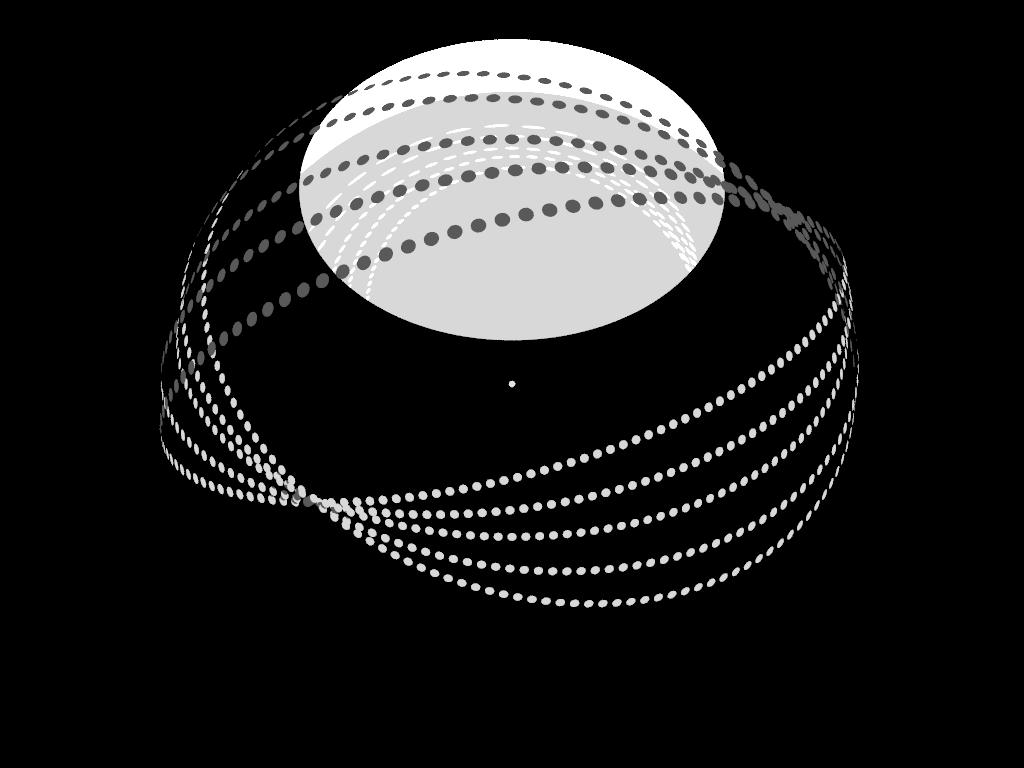 An illustration of a Class C Stellar engine. Image is to scale. Sun is accurately colored according to spectral type. Orbit of collectors depicted at an average of 1 AU radius. Collectors are 1.0 x 107 km in diameter, or ~25 times the distance between the Earth and the Moon. Collectors are spaced 3 degrees from midpoint to midpoint, around the orbital circle. Camera perspective is from a point 2.8 AU from the star, and below the ecliptic. Ring radii are spaced 1.5x107 km. Rings are rotated 15 degrees relative to one another, around a common axis of rotation. Statite mirror is hovering over the north pole of the star (with regards to the ecliptic), at a distance of 1 AU.